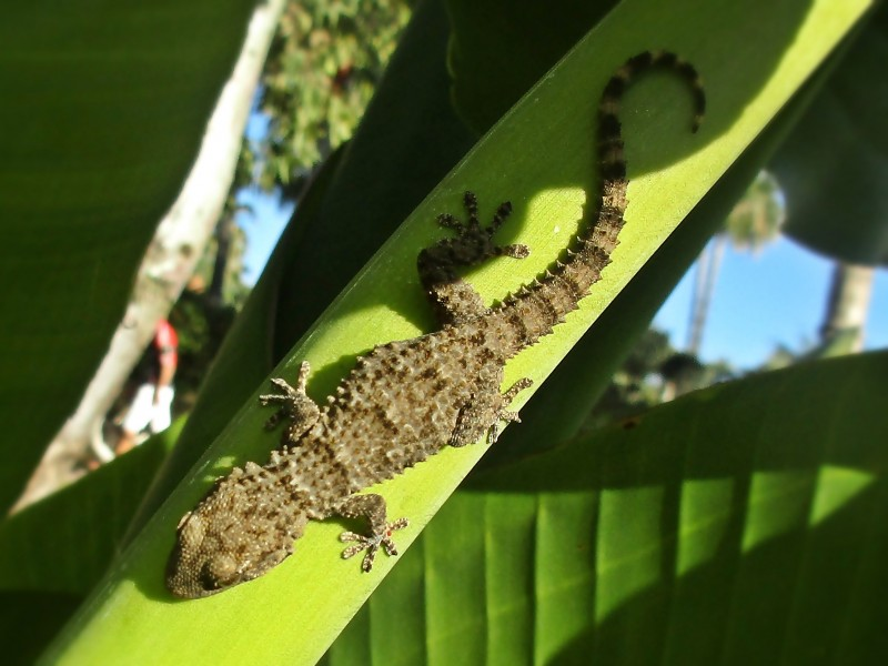 Tarentola mauritanica (Gekkonidae) (Moorish Gecko) - (adult), Río Guadaiza, Spain